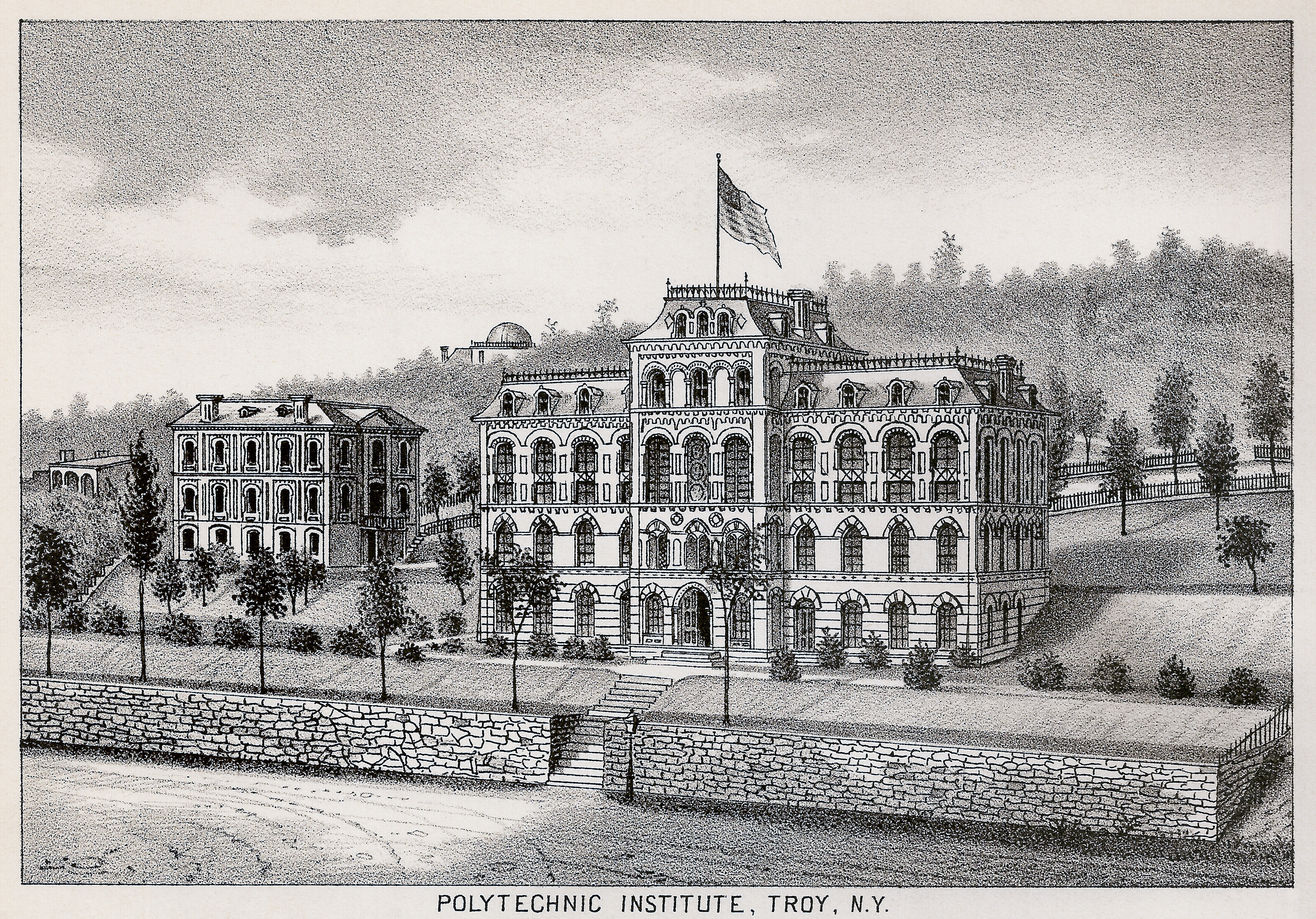 Engraving of the original Rensselaer Polytechnic Institute. The building on the left, Winslow Chemical Laboratory, still stands, though none of the other buildings do.